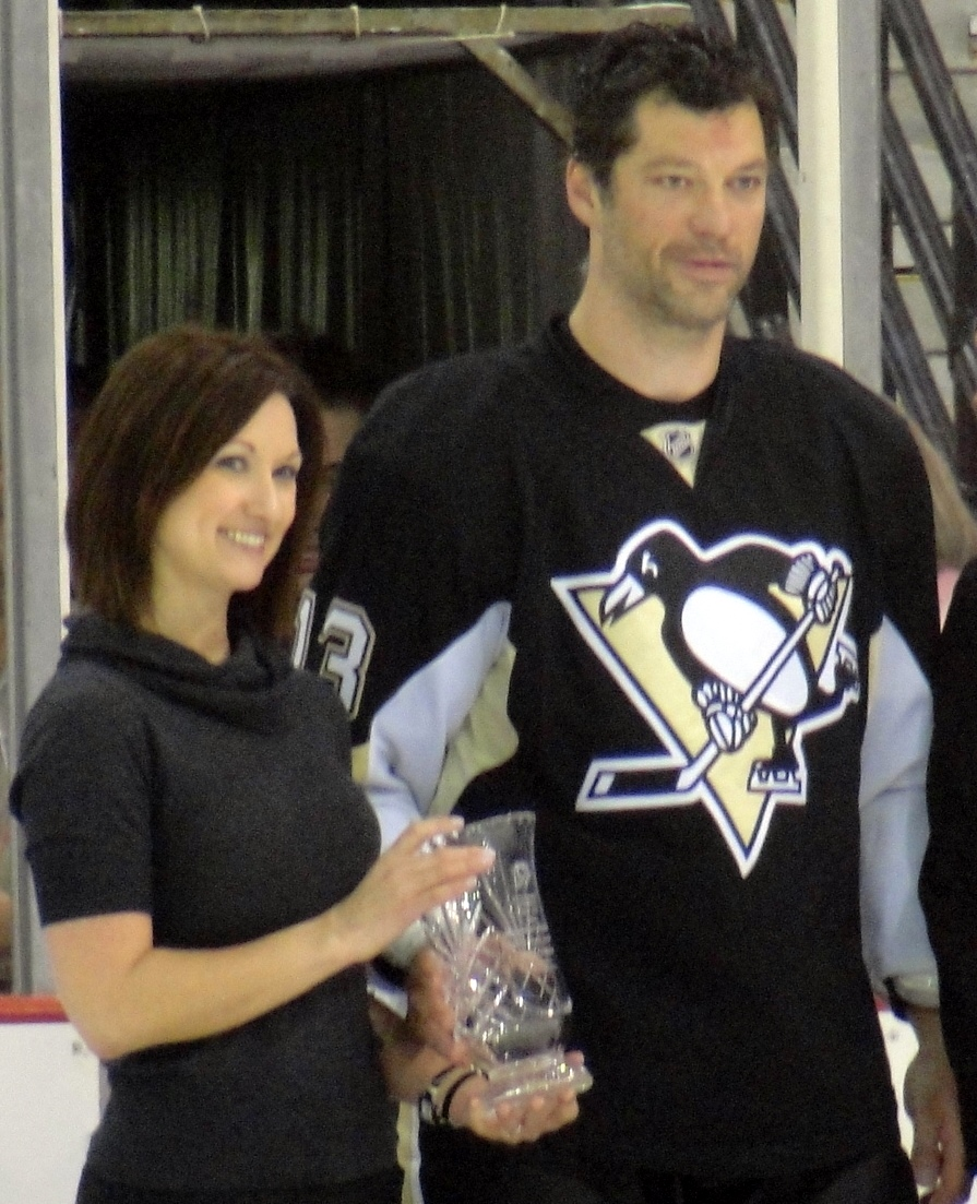 Bill Guerin is honored as the Pittsburgh Penguins nominee for the Bill Masterton Memorial Trophy during a pregame ceremony April 3, 2010 before the Pens faced the Atlanta Thrashers.